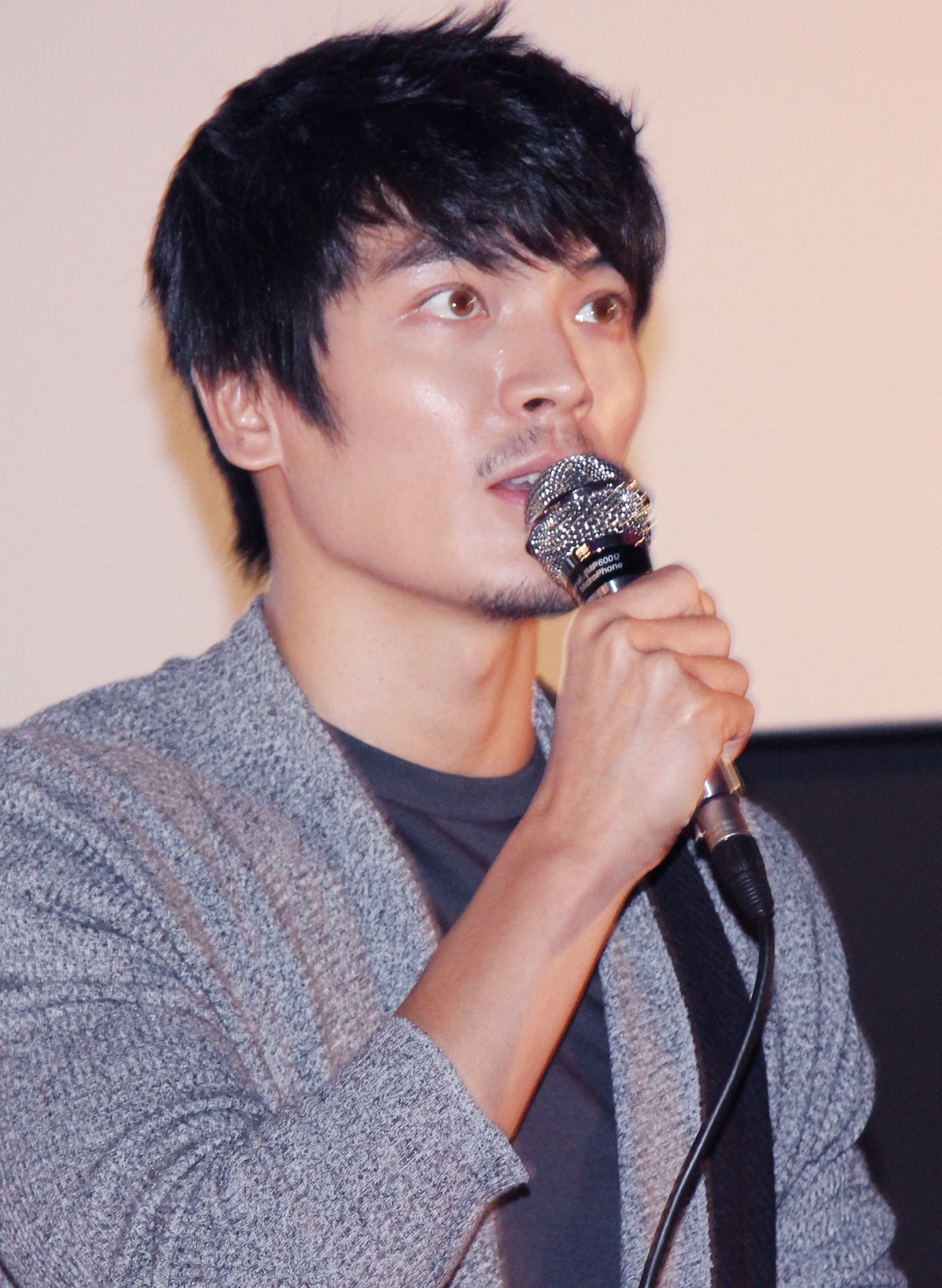 Kim Sung-oh at "Tough as Iron" stage greeting in Busan, 5 October 2013